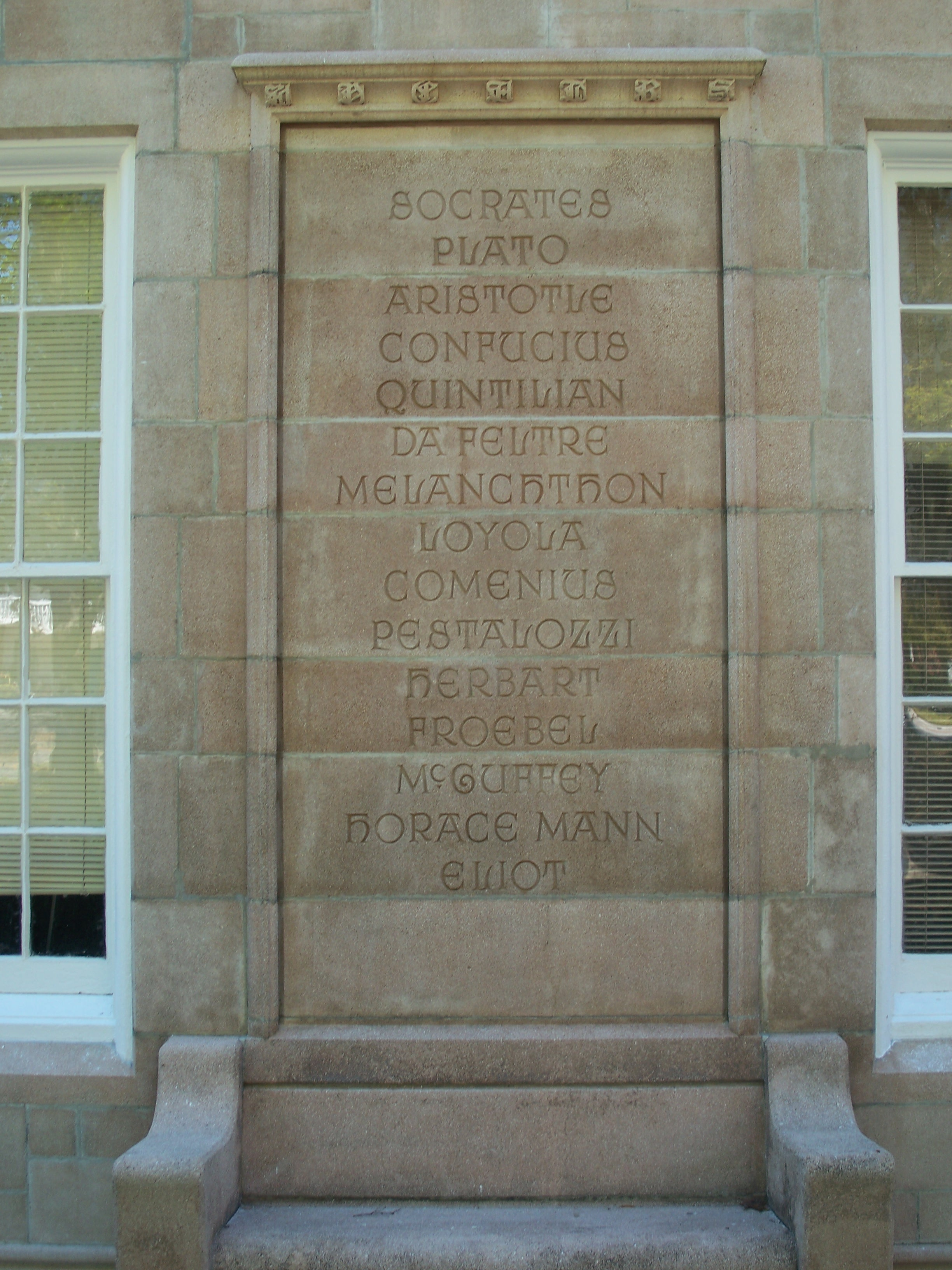 Architectural detail on Norman Hall (The following names are listed: Socrates, Plato, Aristotle, Confucius, Quintilian, Da Feltre, Melanchthon, Loyola, Comenius, Pestalozzi, Herbart, Frobbel, McGuffey, Horace Mann, Eliot)